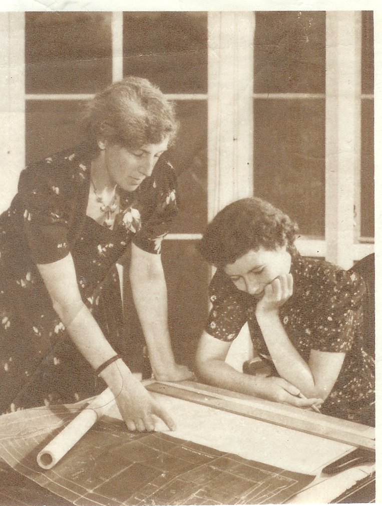 Nora Stanton (Blatch DeForest) Barney and her daughter Rhoda Barney (Jenkins) are two generations of architects in Greenwich, Connecticut. Mother, Nora, used to be a civil engineer who built bridges and skyscrapers in New York City.